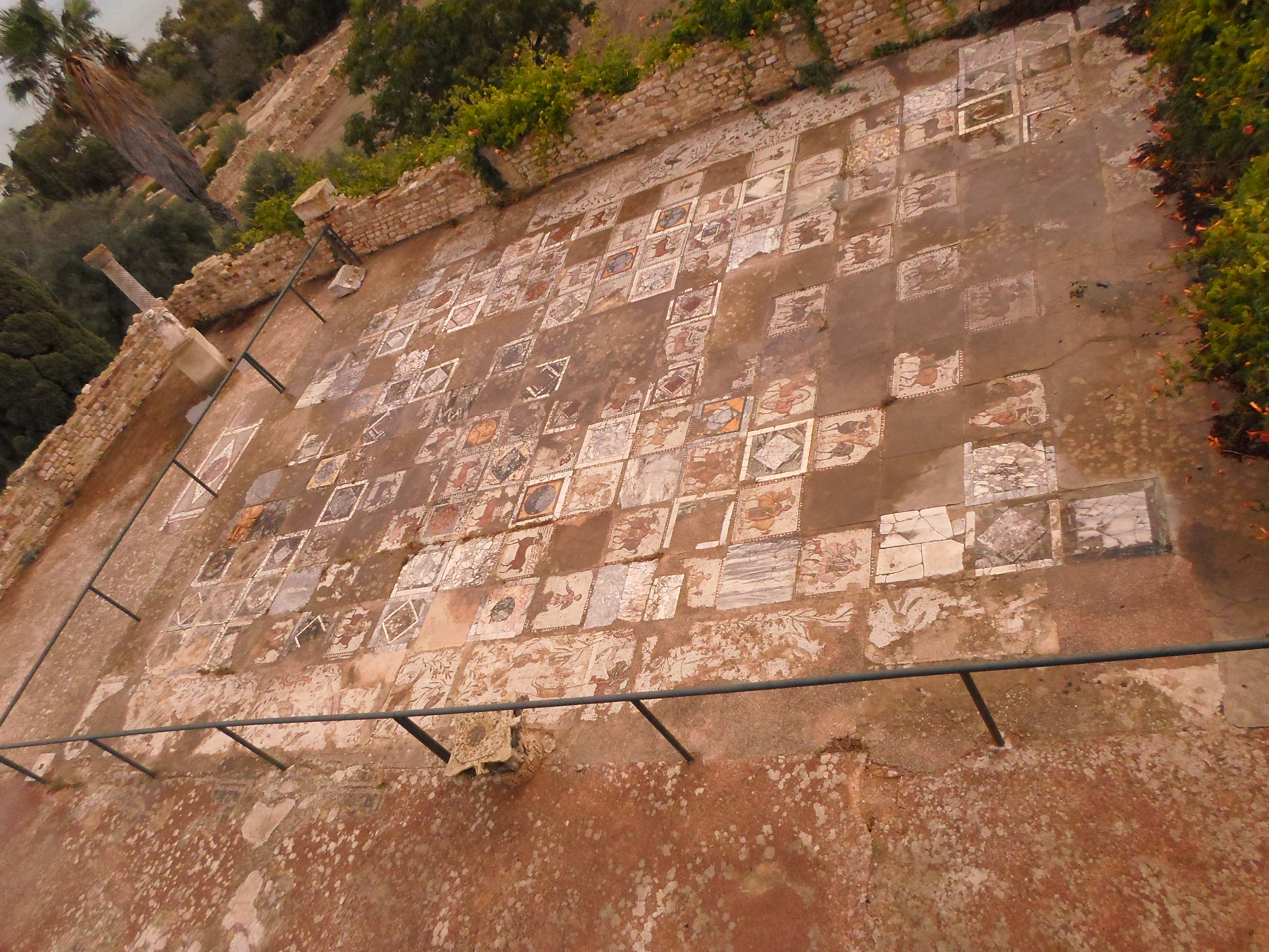 Big Mosaic of Villa Voliere.